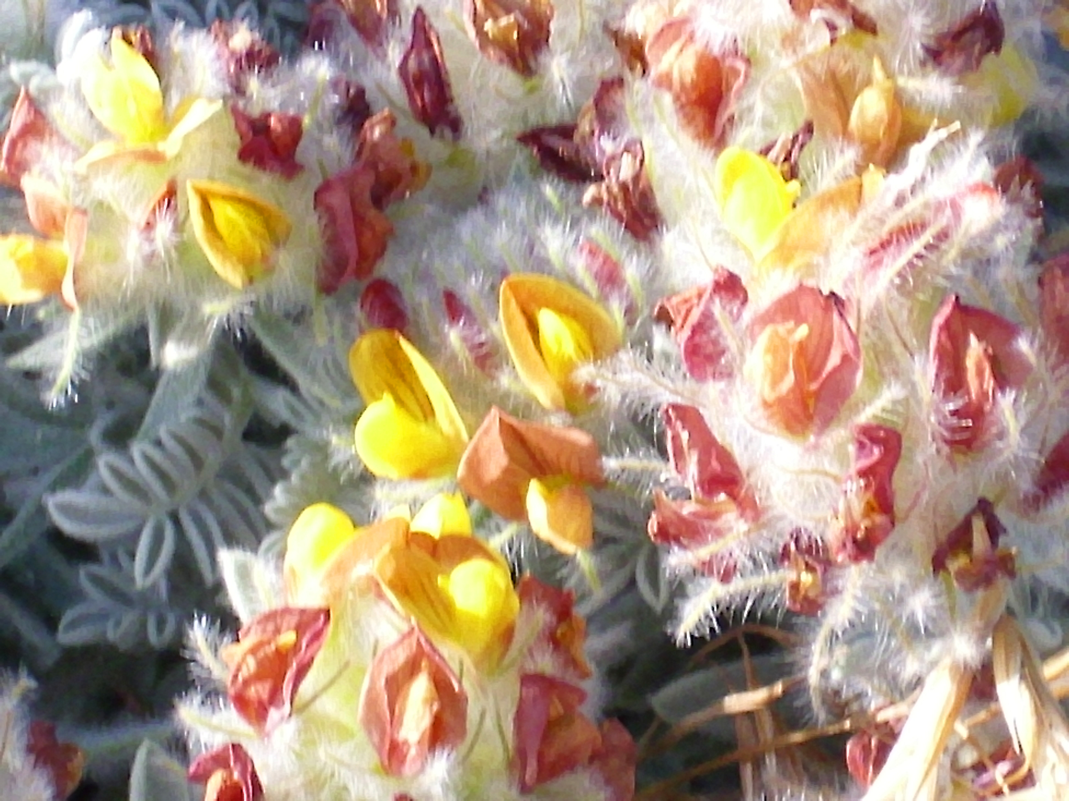 Anthyllis tejedensis close up, Sierra Nevada, Spain